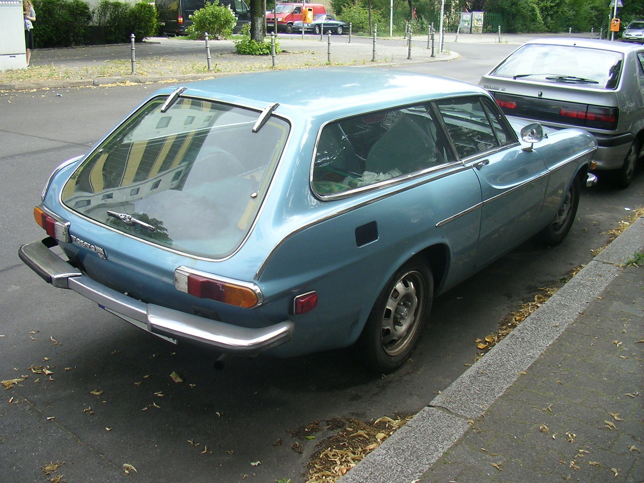 Volvo P1800ES